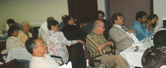 Banquet for Steven Jay Gould. CSICOP, Buffalo, NY